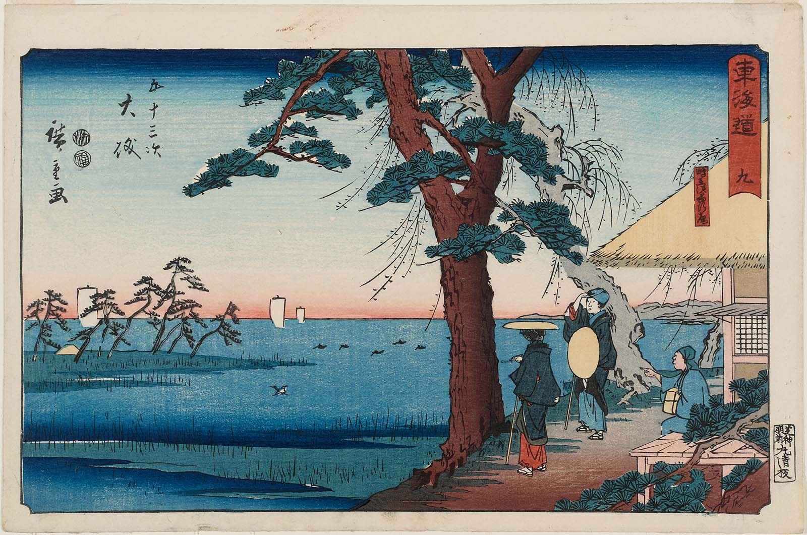 Ôiso, Shigi tatsu sawa Saigyô-an; Reisho Tôkaidô